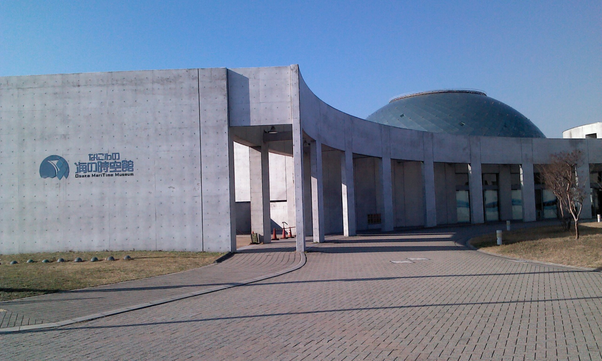 Osaka Maritime Museum (closed:10 March 2013)